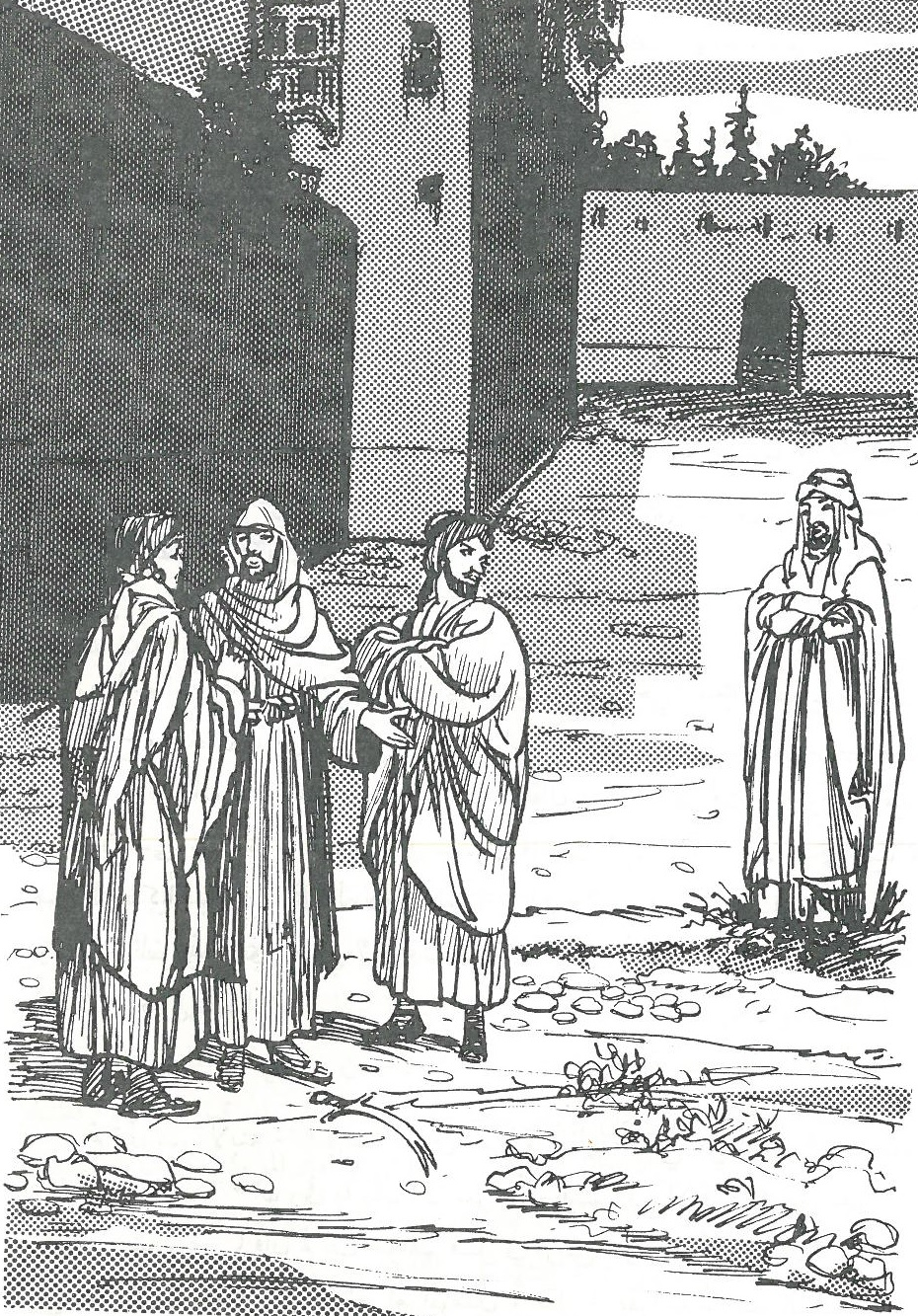 Abdul-Rahman ibn Abi Bakr witnesses a group of Persians talking with each others, among them was Hormuzan and Abu Lululah, a double blade dagger can be seen that has fallen from one of them. Some Historians belive that these people have conspired to kill Caliph Umar bin Al Khattab.